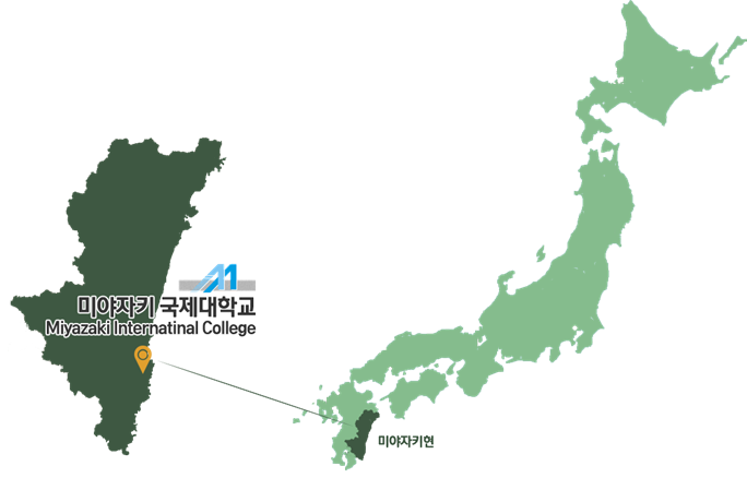 Miyazaki MIC